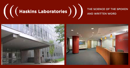 Official photo of Haskins Laboratories, 300 George St., New Haven, CT).